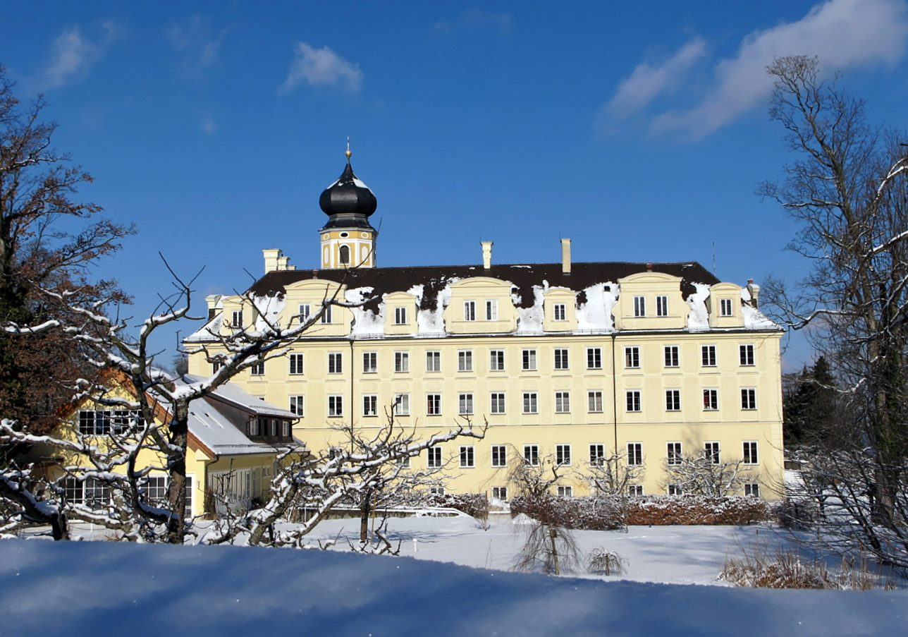 castle (former monastery) view from South